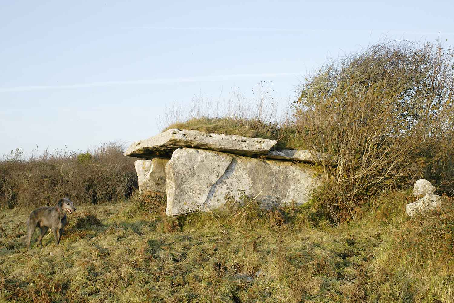 Wedge tomb, Clooneen townland, County Clare, Ireland. Photo by Danny Burke.